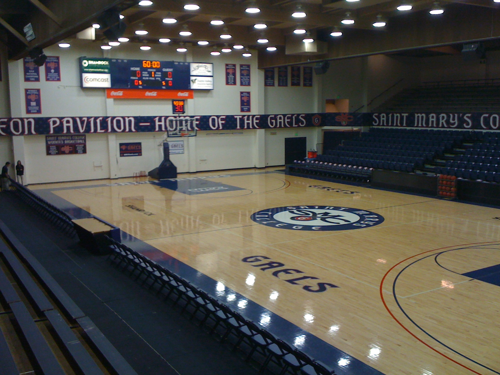 McKeon Pavilion at Saint Mary's College of California before a women's basketball game on Jan. 28, 2010.